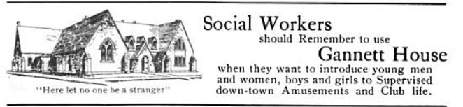 Advertisement for Gannett House, the former parish house for the First Unitarian Church of Rochester and the location of the Boys' Evening Home around 1900. The advertisement appeared in The Common Good magazine.